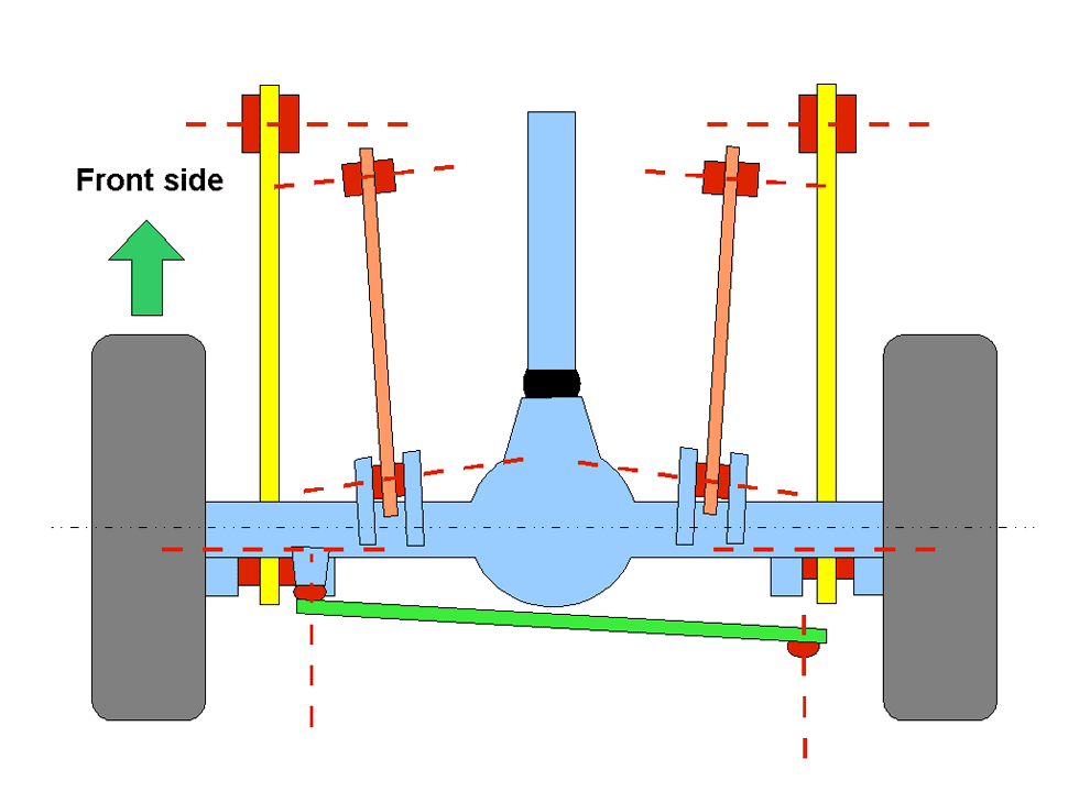 A schematic view of a 5 Link rigid suspension.